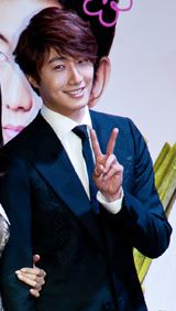 Jung Il-woo at the Flower Boys Ramyun Shop press conference